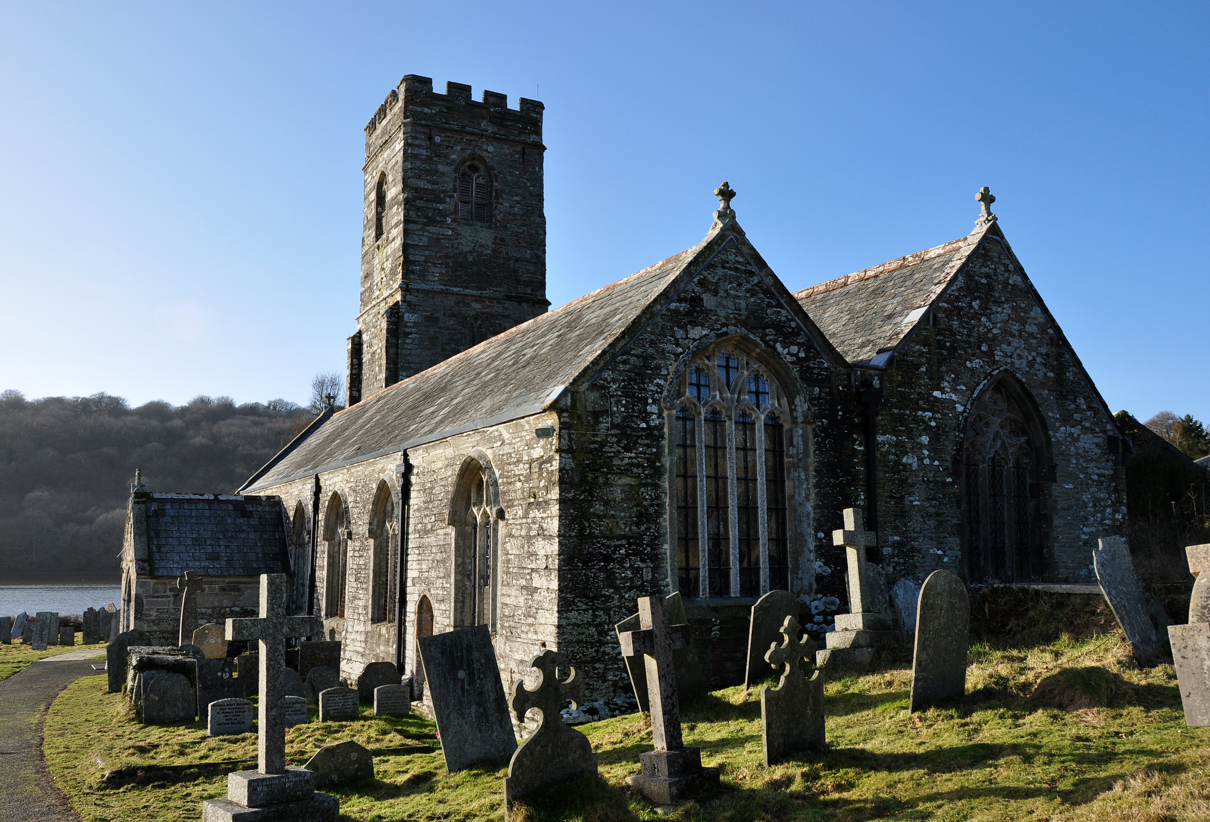 St Winnow parish church, Cornwall, seen from the southeast